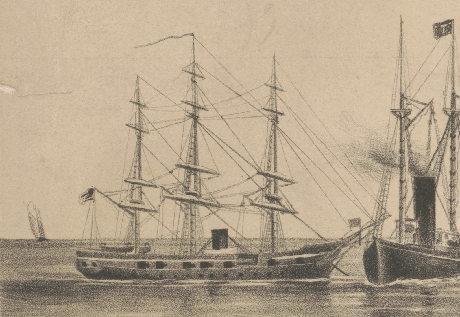 Title: U.S. Naval review at Hampton-Roads VA. Lithograph after a drawing by Joseph L. Jones, circa 1877-1880 depicting a Naval Review in Hampton-Roads, VA. dedicated to Secretary of the Navy Richard W. Thompson. Ships present include (from left): USS Marion, USS Tallapoosa (flying the Secretary of the Navy's Flag), USS Constitution, USS Kearsarge, USS Saratoga, USS Powhatan, USS Portsmouth and USS Minnesota. Abstract/medium: 1 print.